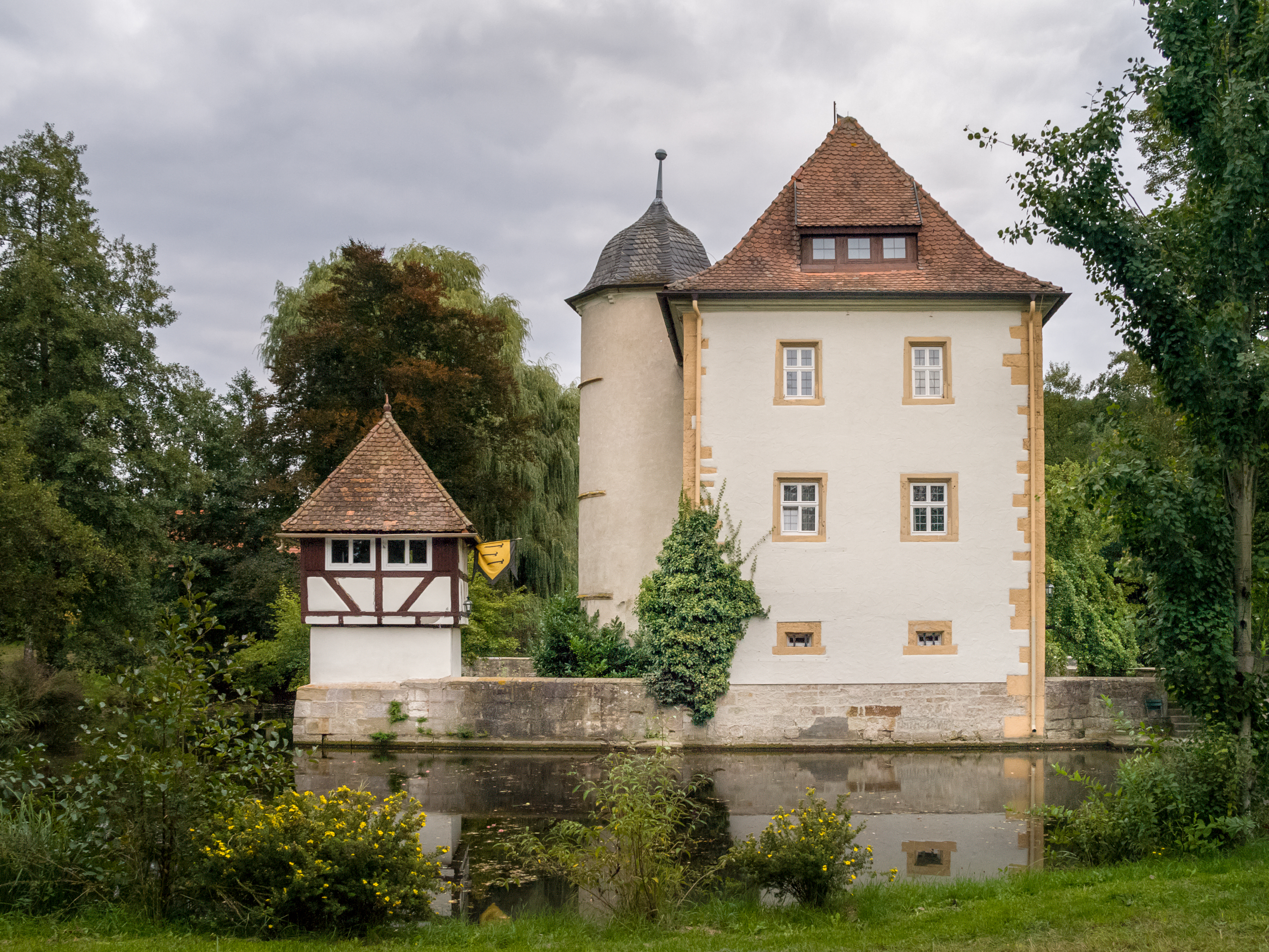 Water castle Kleinbardorf, Rhön-Grabfeld, Bayern